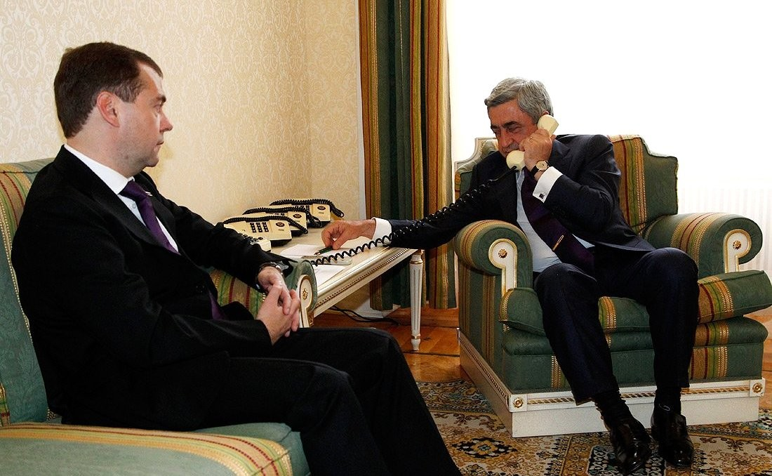 President of Armenia Serzh Sargsyan during a telephone conversation with Turkish President Abdullah Gül.